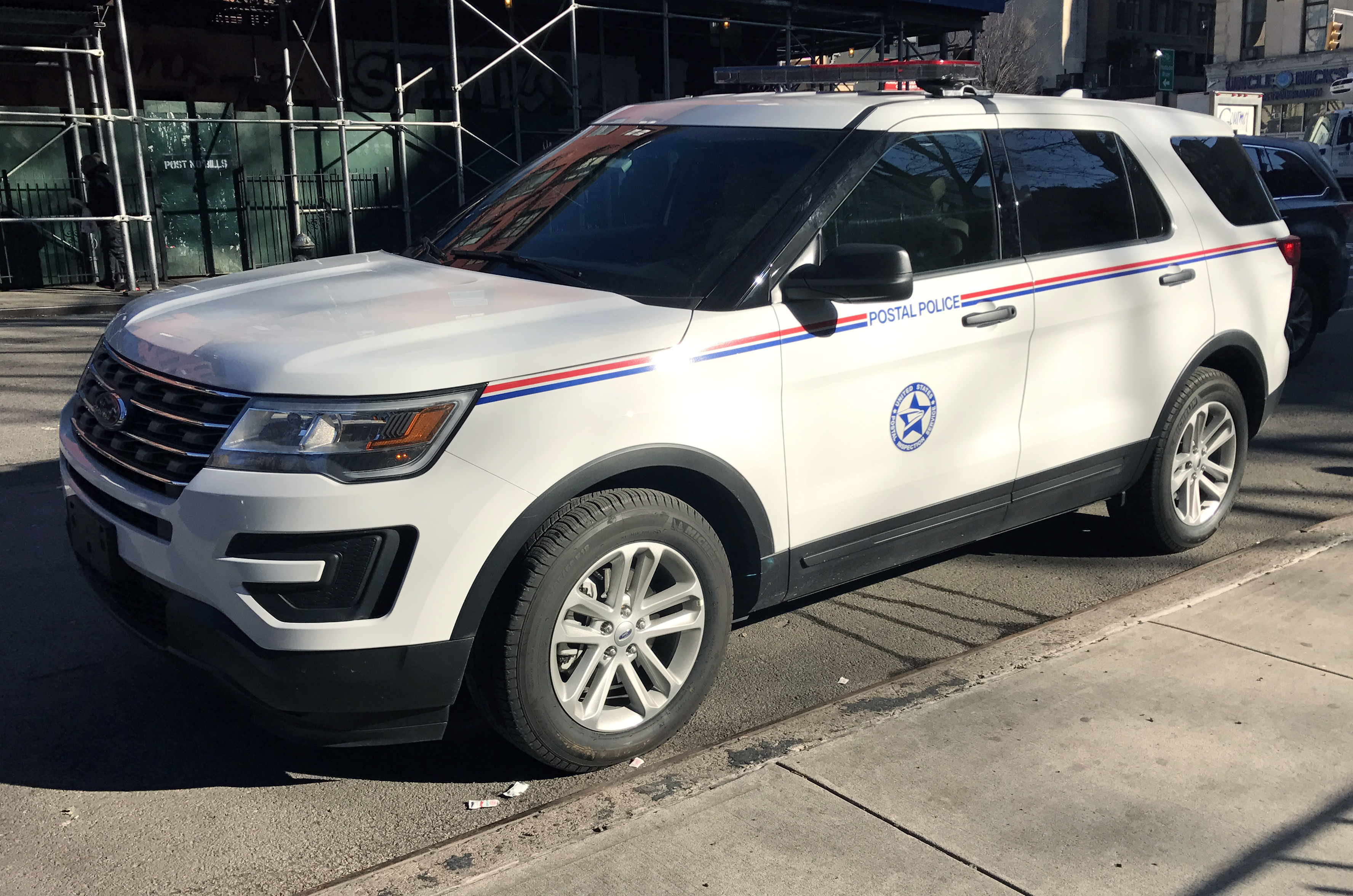 A 2016 Ford Police Interceptor belonging to the Postal Police. They probably do something worthwhile and this particular officer's less than martial bearing spoke well of the organization's priorities.